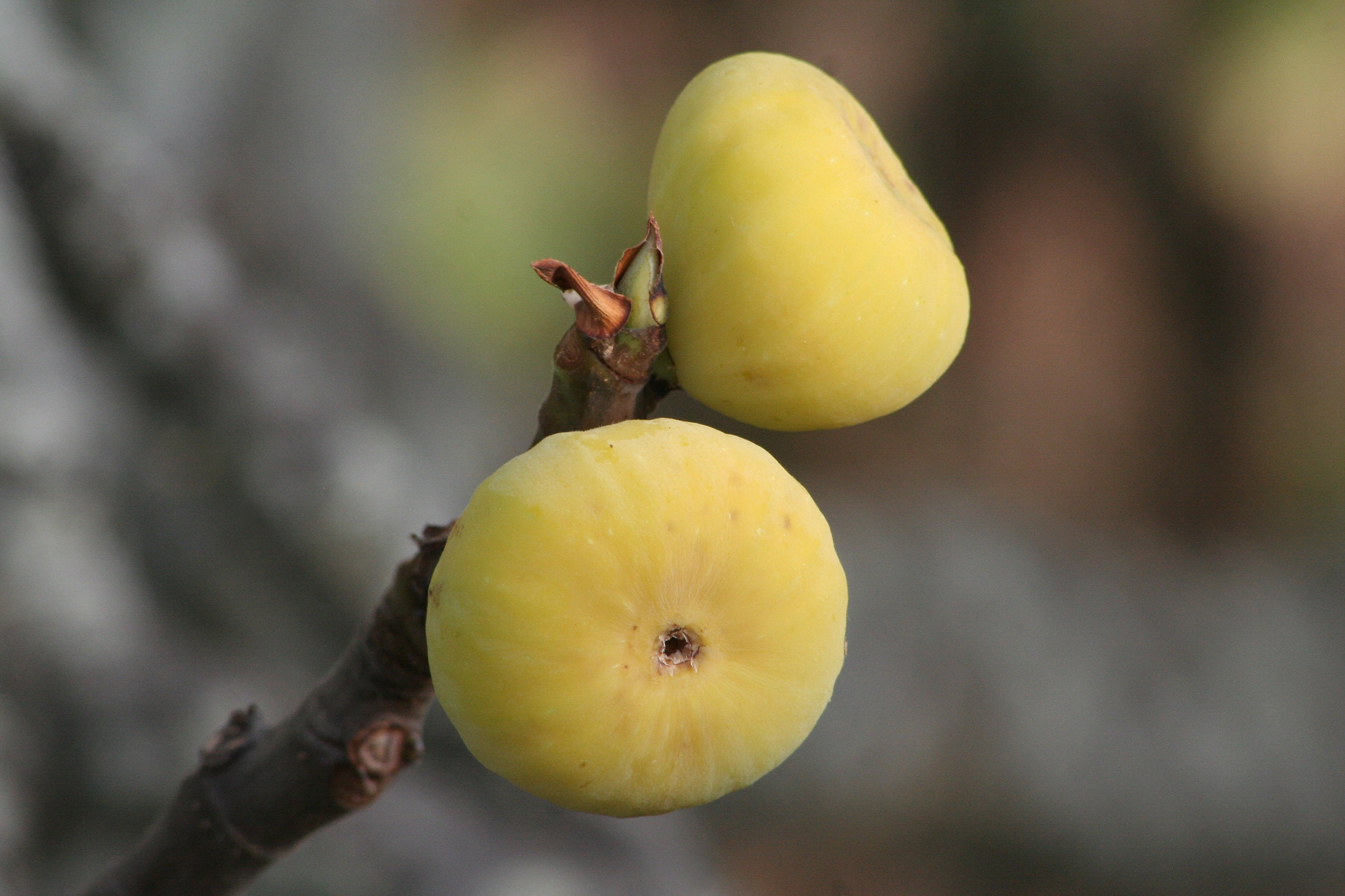 Fresh fig